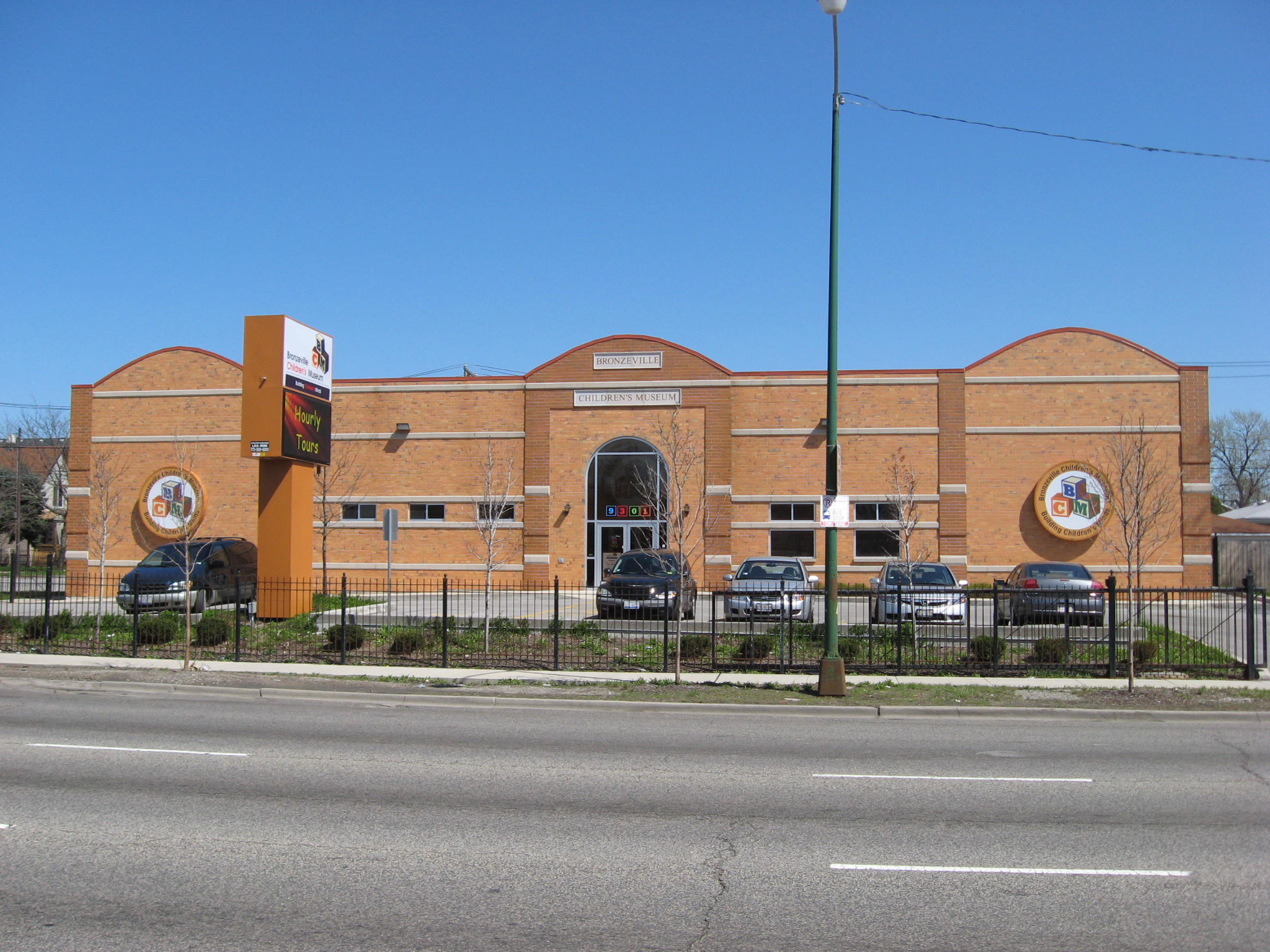 Bronzeville Childrens Museum